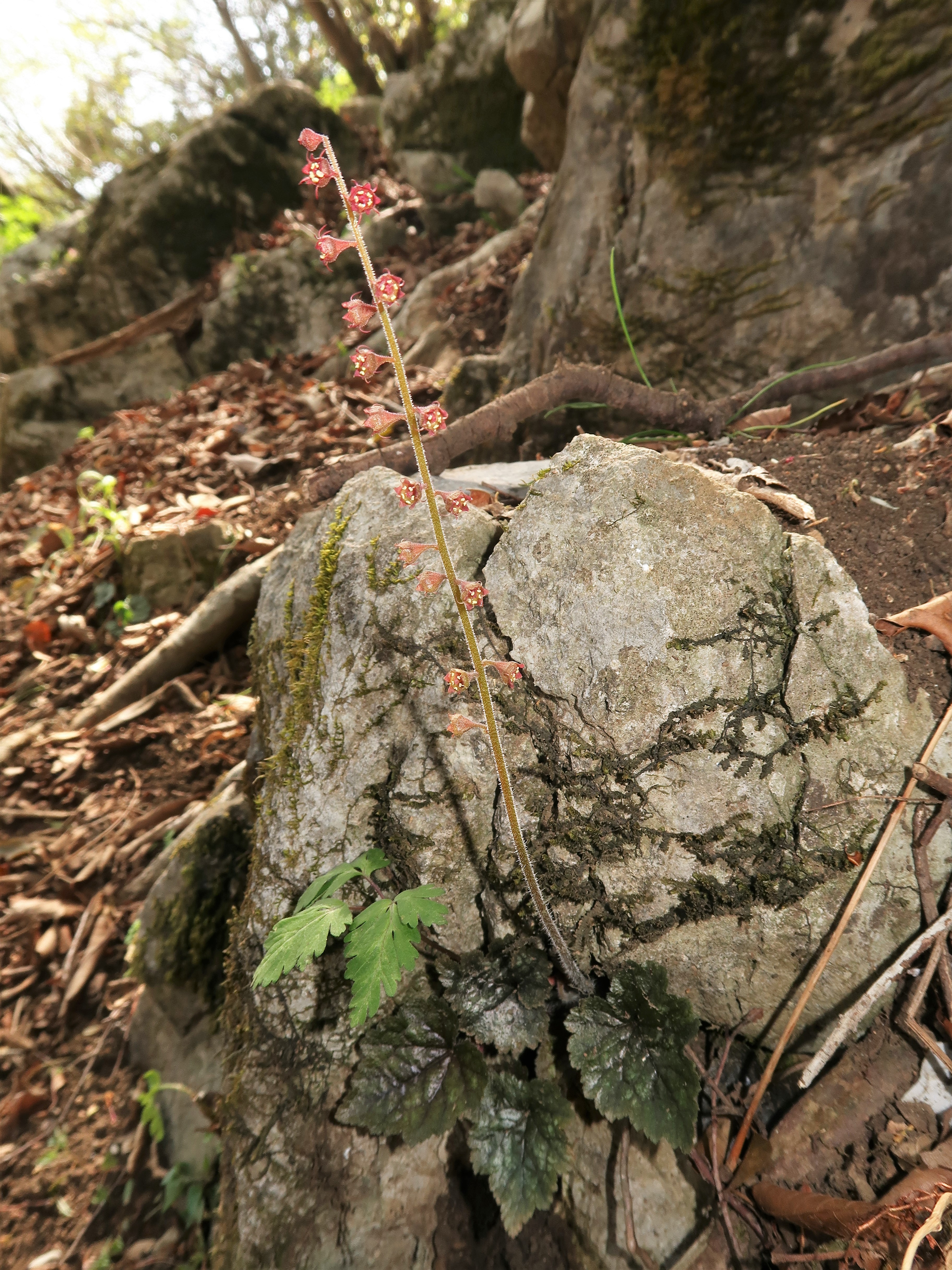 Mitella stylosa var. stylosa, Mount Fujiwara-dake, Mie pref., Japan